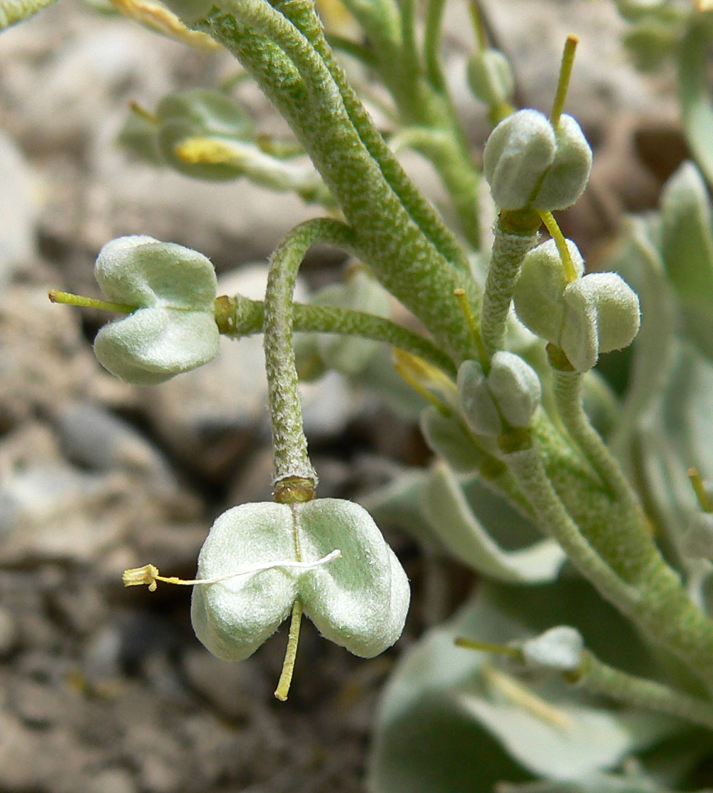 Physaria chambersii on a road cut in upper Kyle Canyon, Spring Mountains, southern Nevada (elev. about 2200 m)